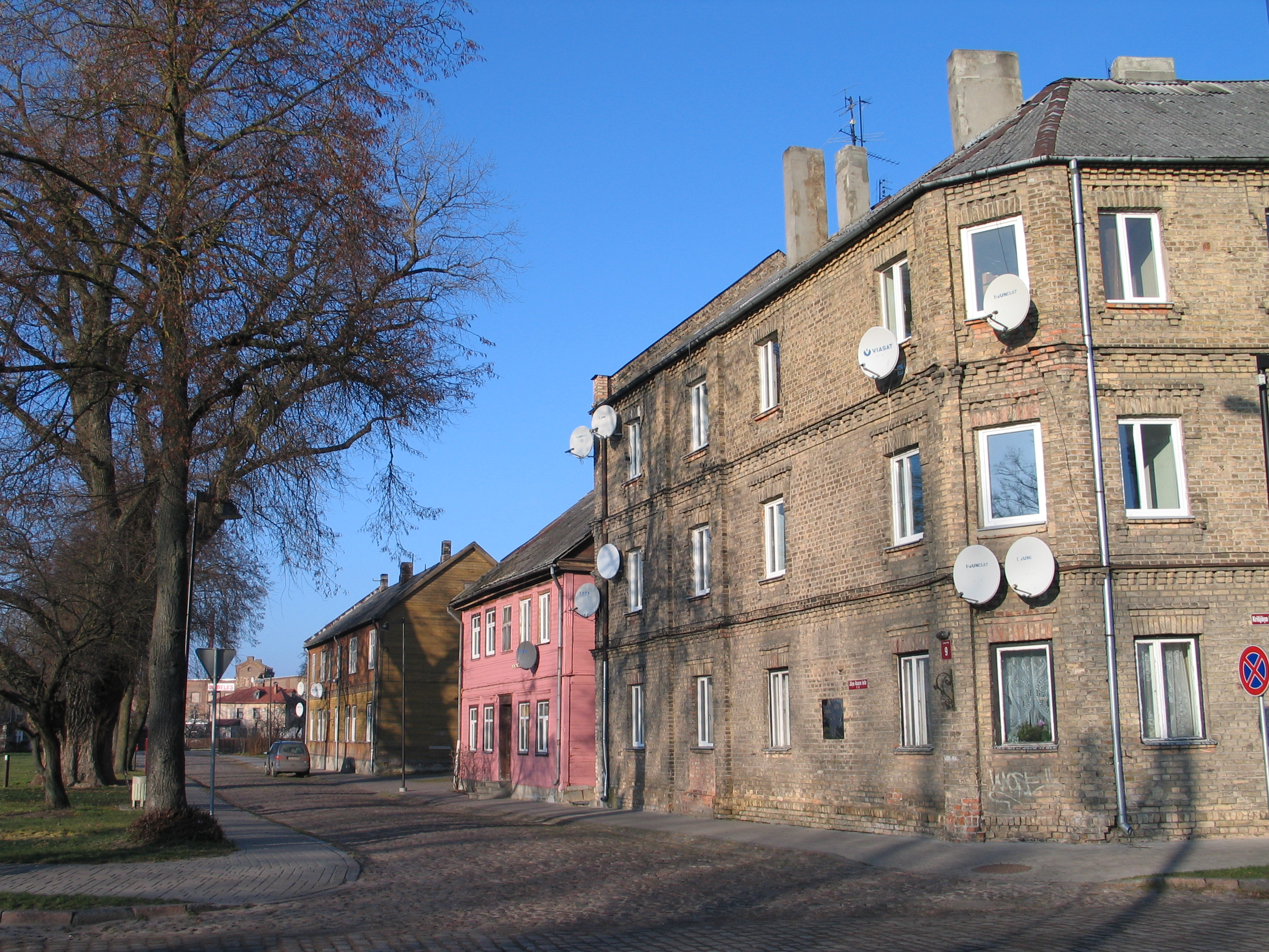 Jāņa Asara Street in Jelgava